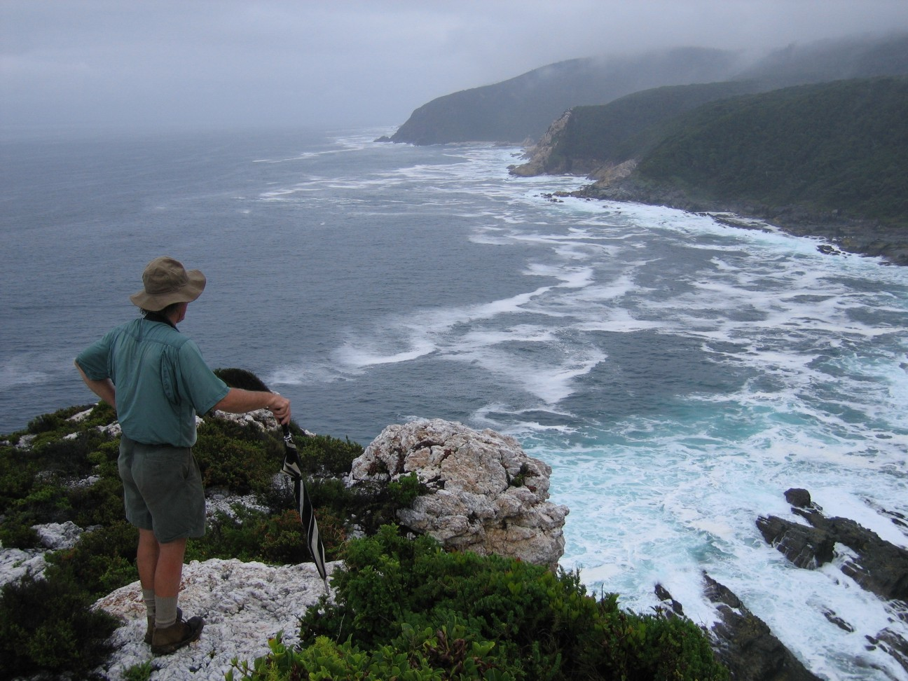 Scene on Otter Trail, South Africa, View from Skilderkrans across Bloubaai-Wes, Paul Fatti